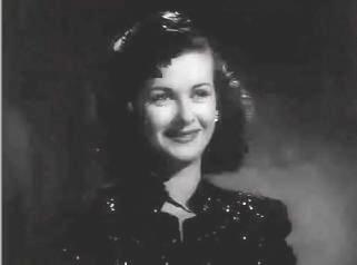 Screenshot of Joan Bennett from the trailer for the film The Woman in the Window